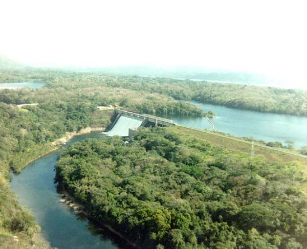 Madden Dam, Panama. Dam viewed from the southwest (downstream). U.S. Army Operation JUST CAUSE historical photo.